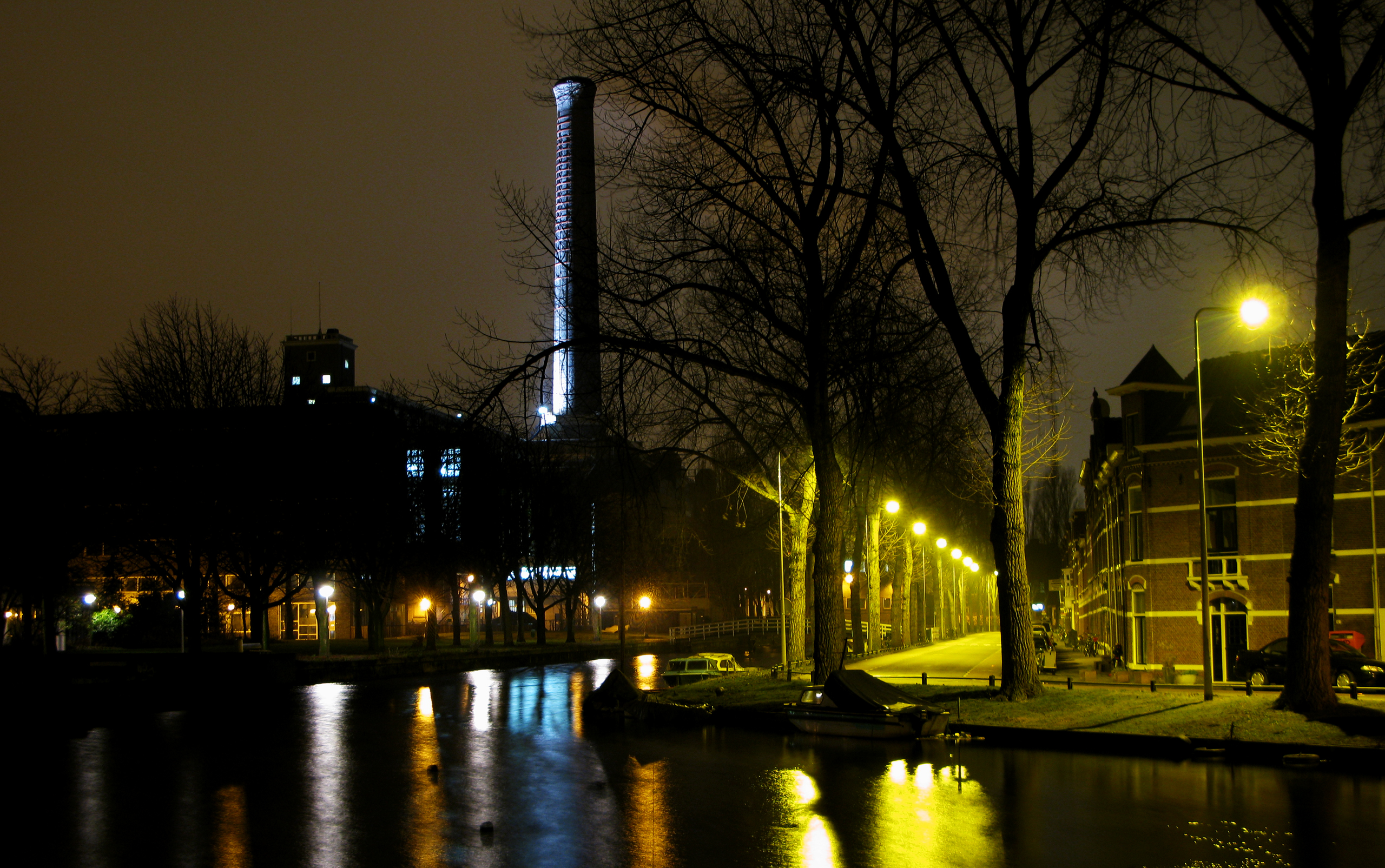 Leiden at night - View of Singel canal (in old days part of city defense works) near Maresingel (at the background the chimney of the power station at the Langegracht)